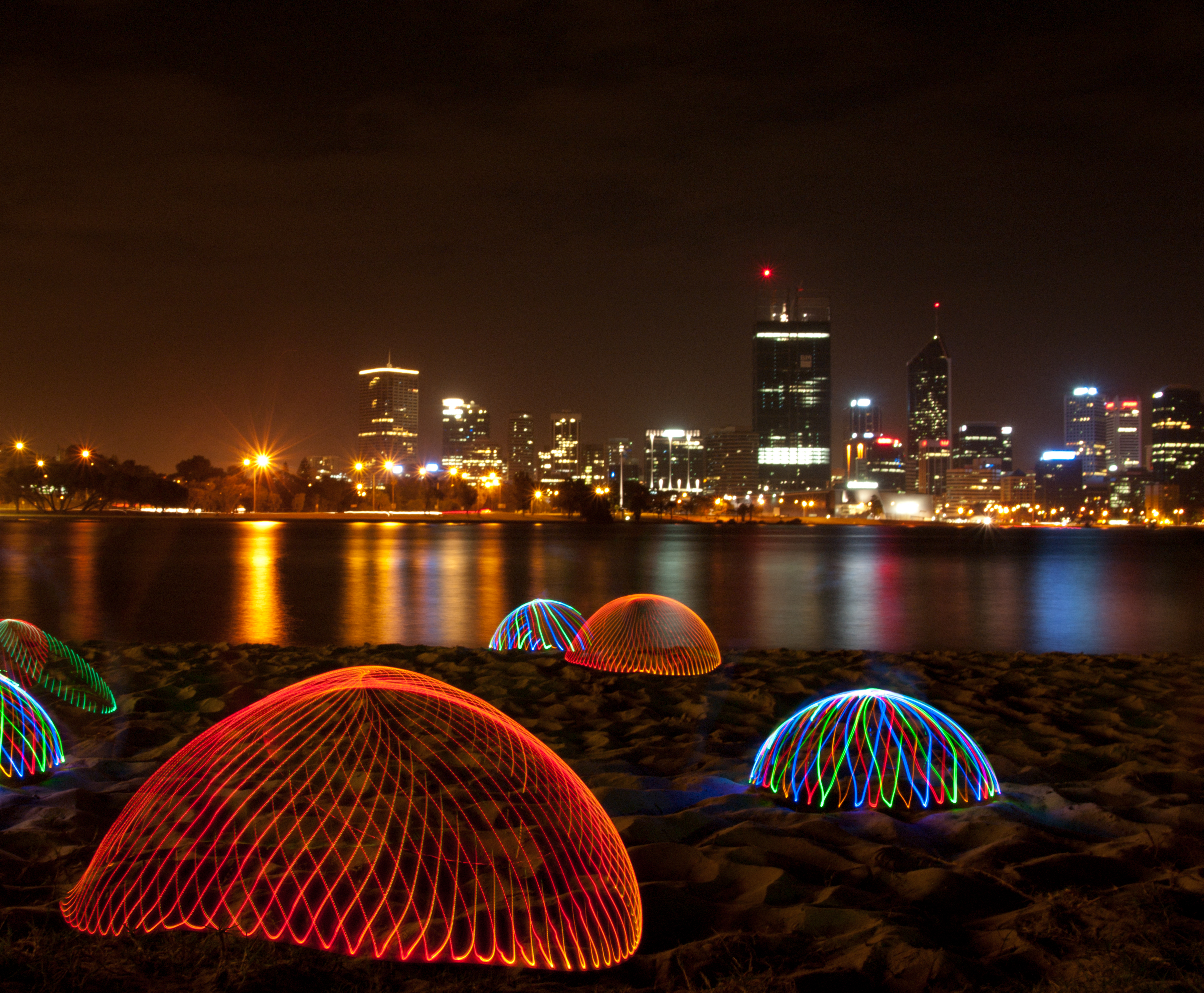 Light Painting, domes, on the banks of the Swan River Perth Western Australia